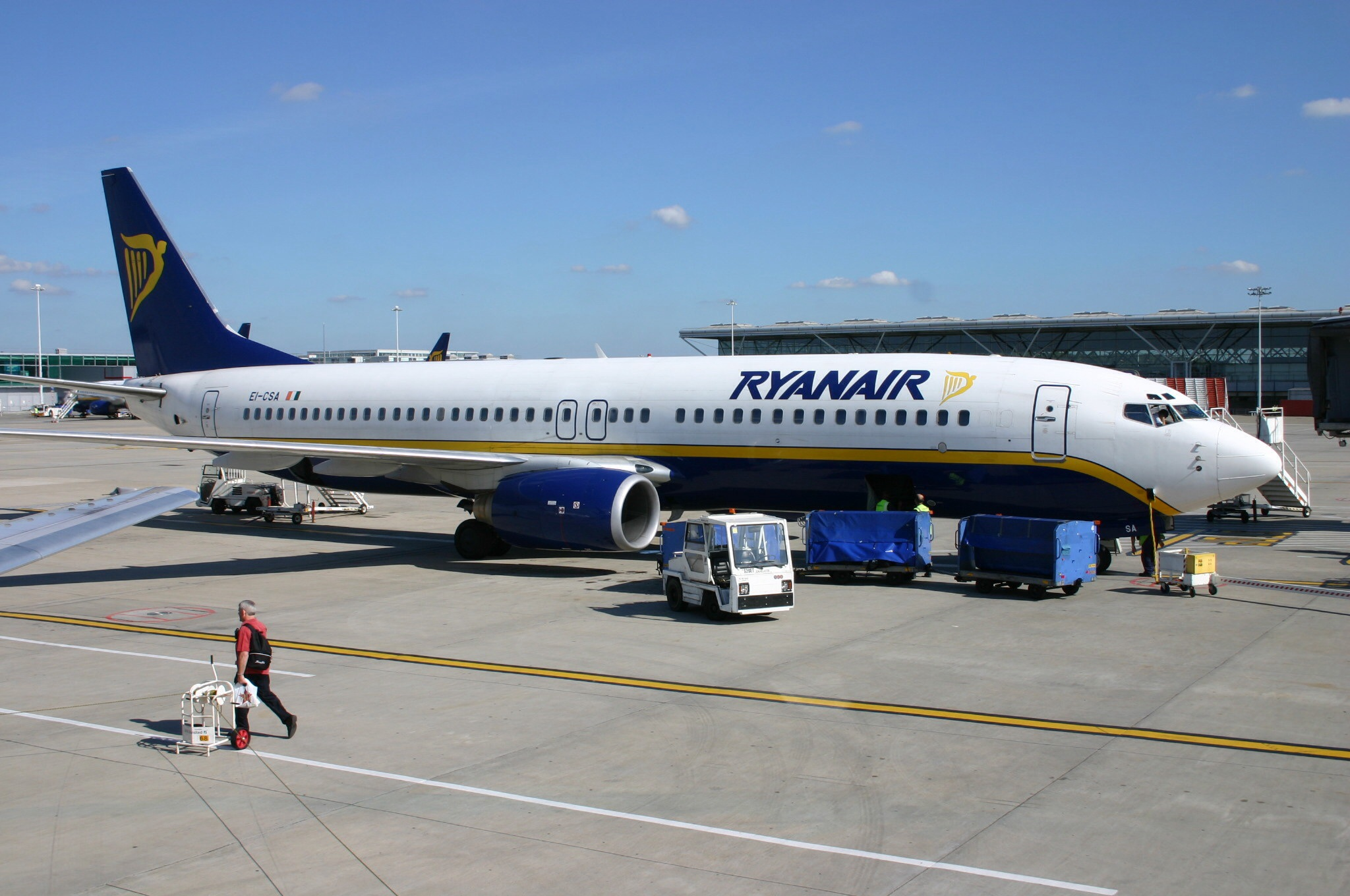 At London Stansted